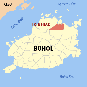 Map of Bohol showing the location of Trinidad